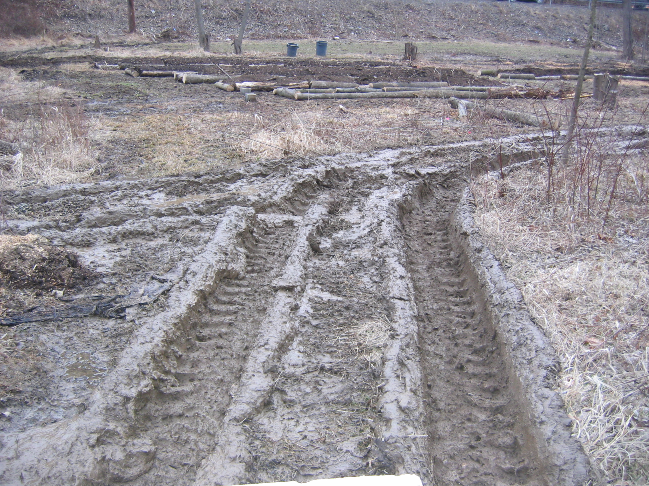 Tractor ruts